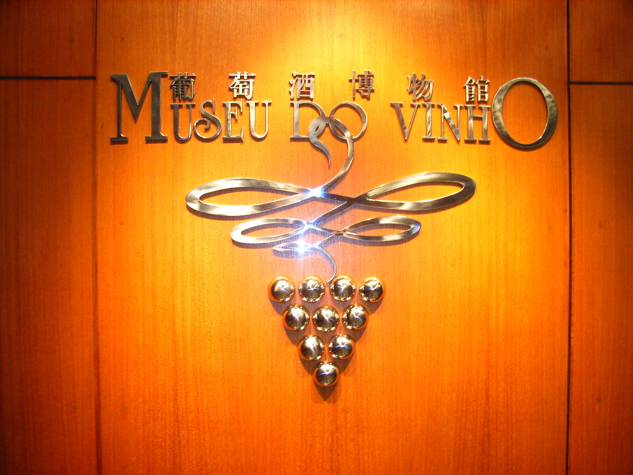 澳門的葡萄酒博物館 Macau the Wine Museum